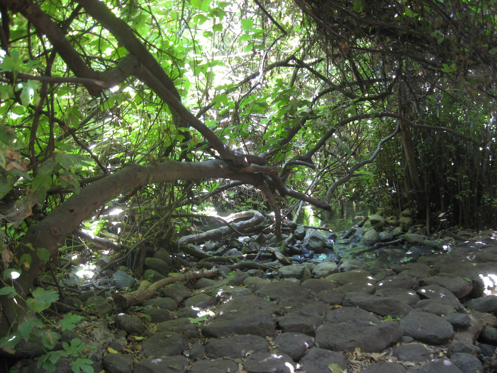 Flowing Dan stream in north Israel